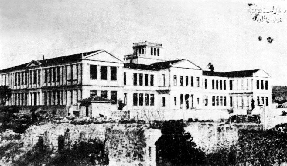 Main building of the Ionian University of Smyrna